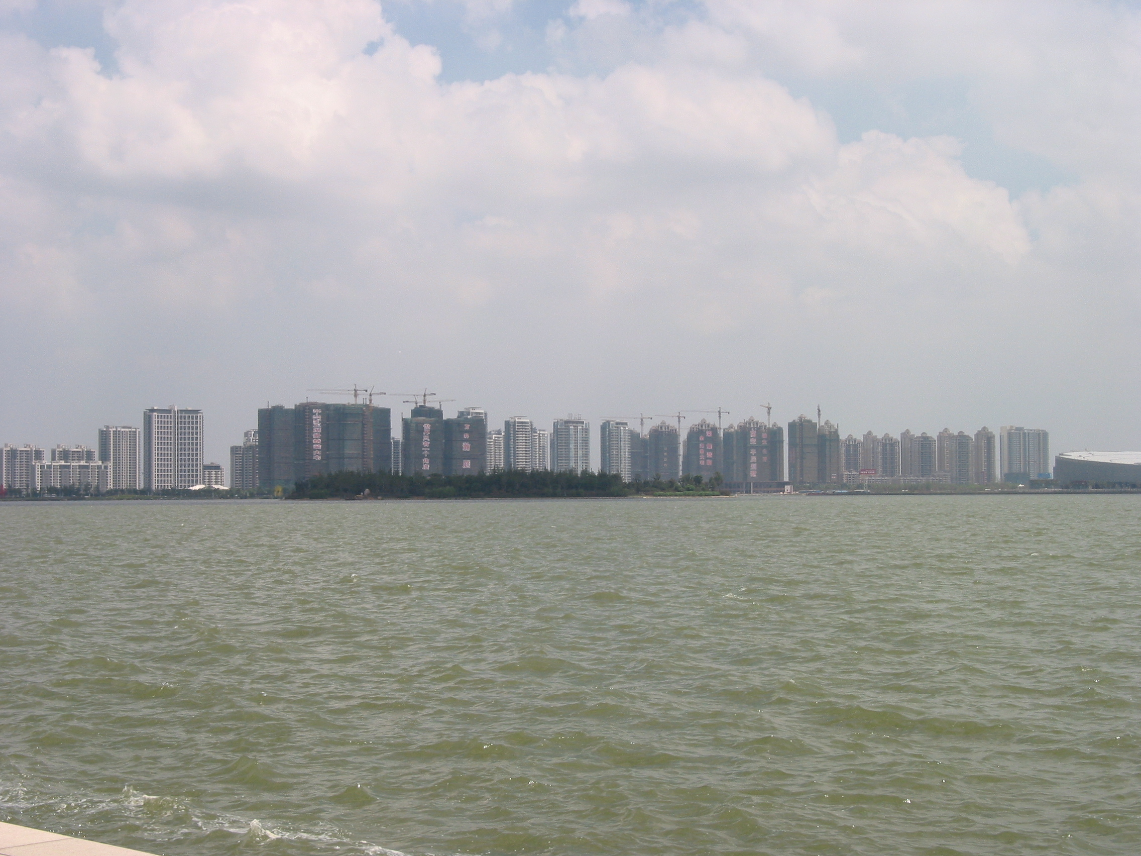 Skyline of Suzhou (苏州) from the lakefront, with condos currently being constructed